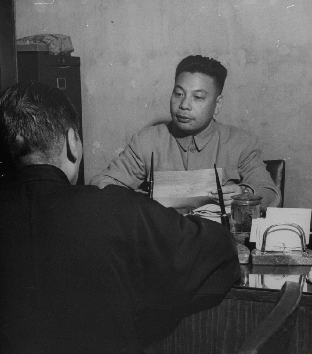 (Original text description) Chiang Ching-Kuo (right) listening to shopkeeper's grievance.